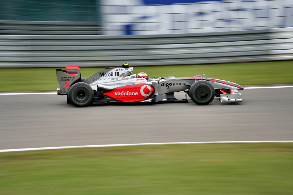 Heikki Kovalainen driving for McLaren at the 2009 German Grand Prix.